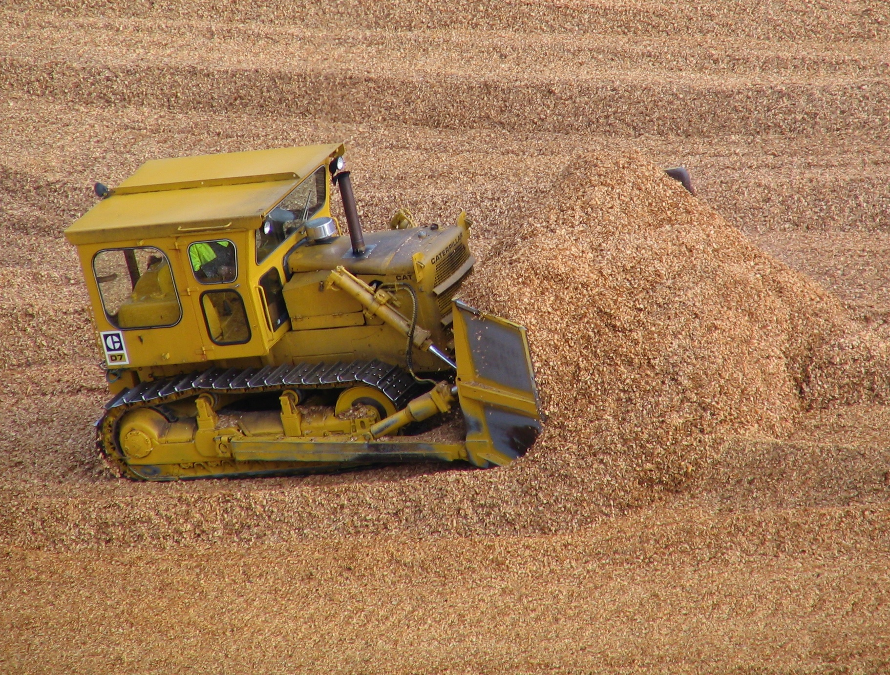 Caterpillar D7 bulldozer working the woodchip pile at Port Chalmers, New Zealand